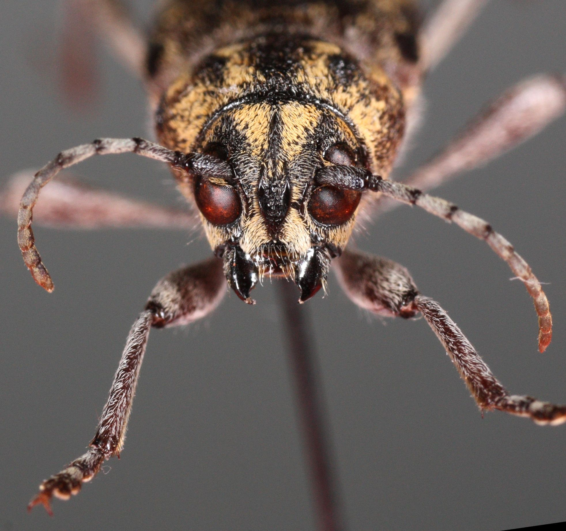 Male Rusticoclytus rusticus